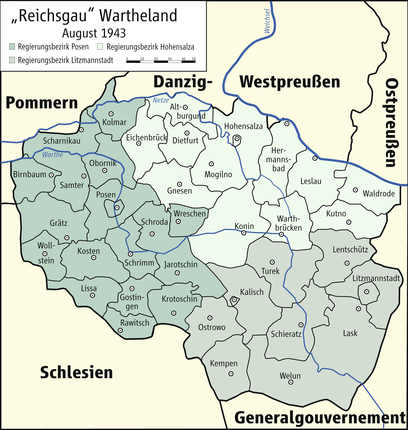 Map of "Reichsgau Wartheland", 1943